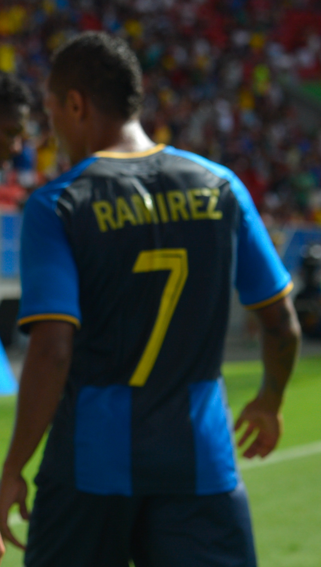 Brasília - Equipes masculinas do futebol olímpico da Argentina e Honduras jogam no Estádio Mané Garrincha (Gustavo Gomes/Agência Brasil)